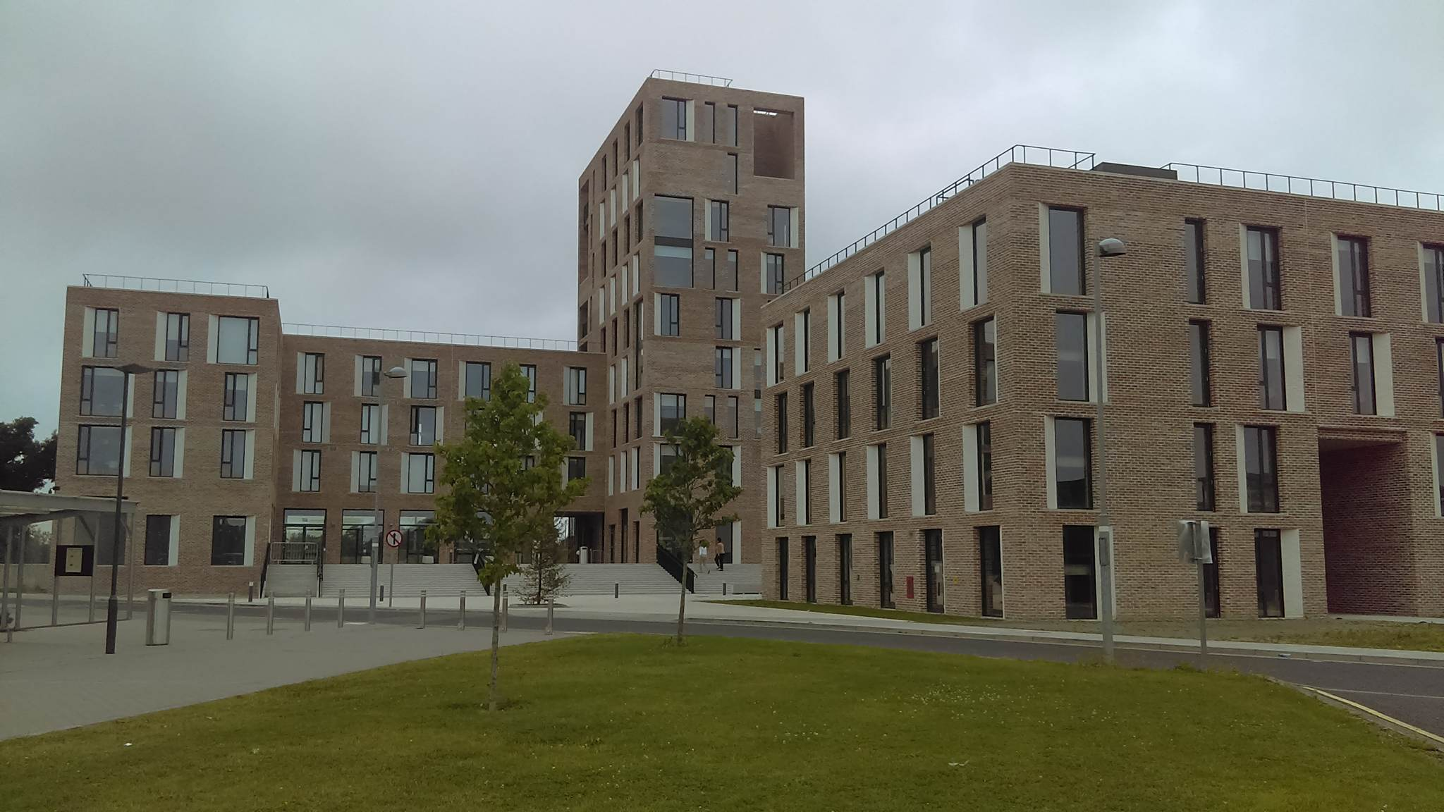 On campus Accommodation in Maynooth.